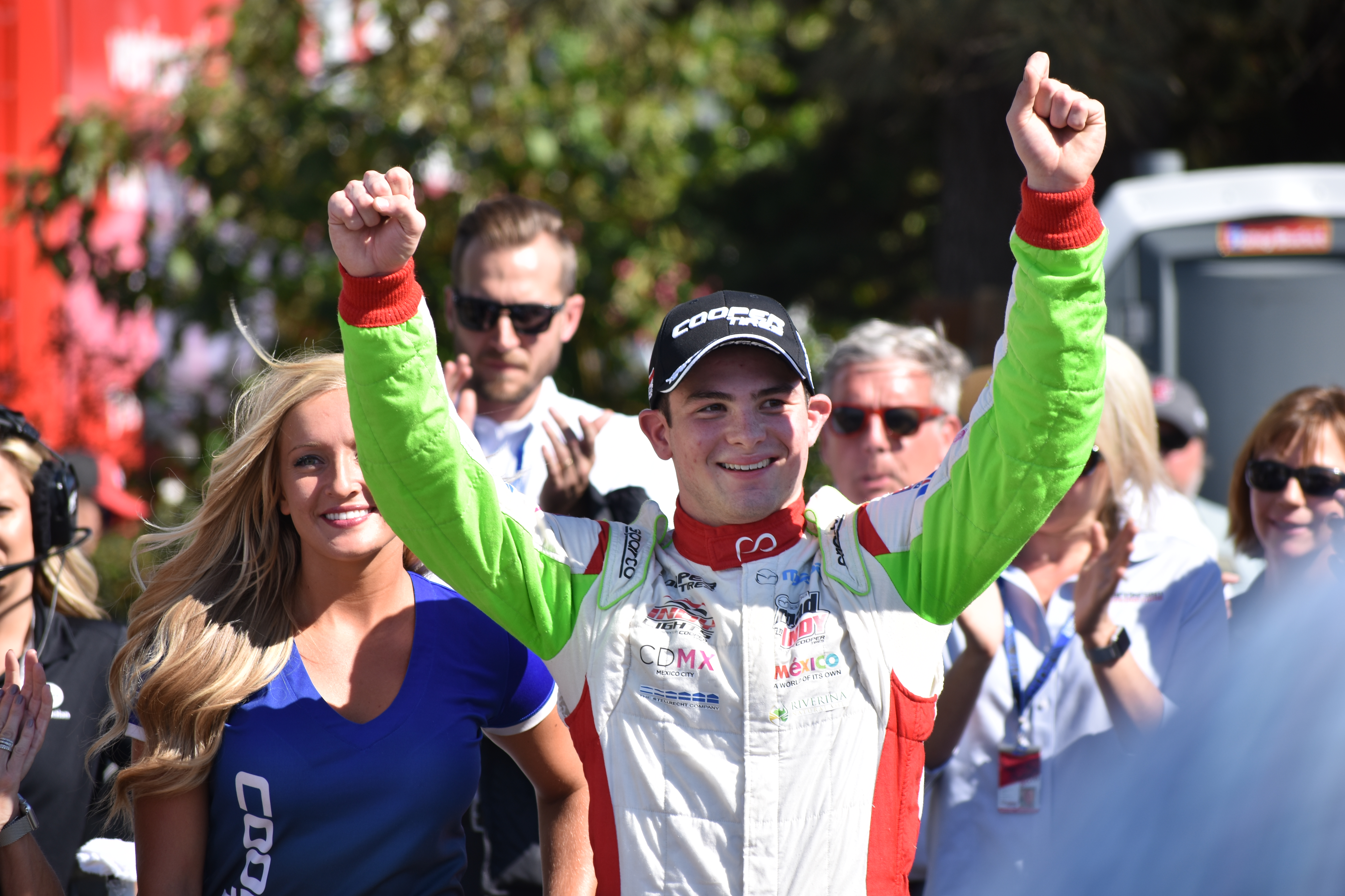 O'Ward after clinching the Indy Lights championship at Portland